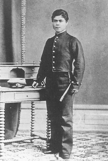 Gonbee Yamamoto in 1877